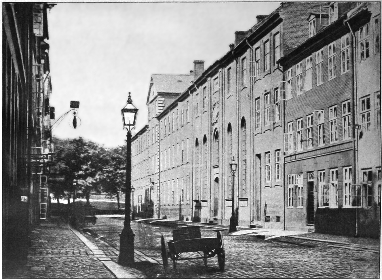 View from Løngangsstræde in Copenhagen. Photo from around 1860.